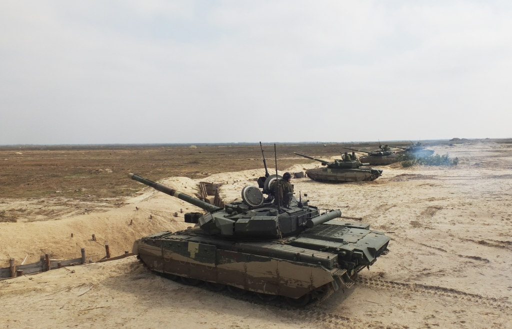 Ukrainian training before Strong Europe Tank Challenge